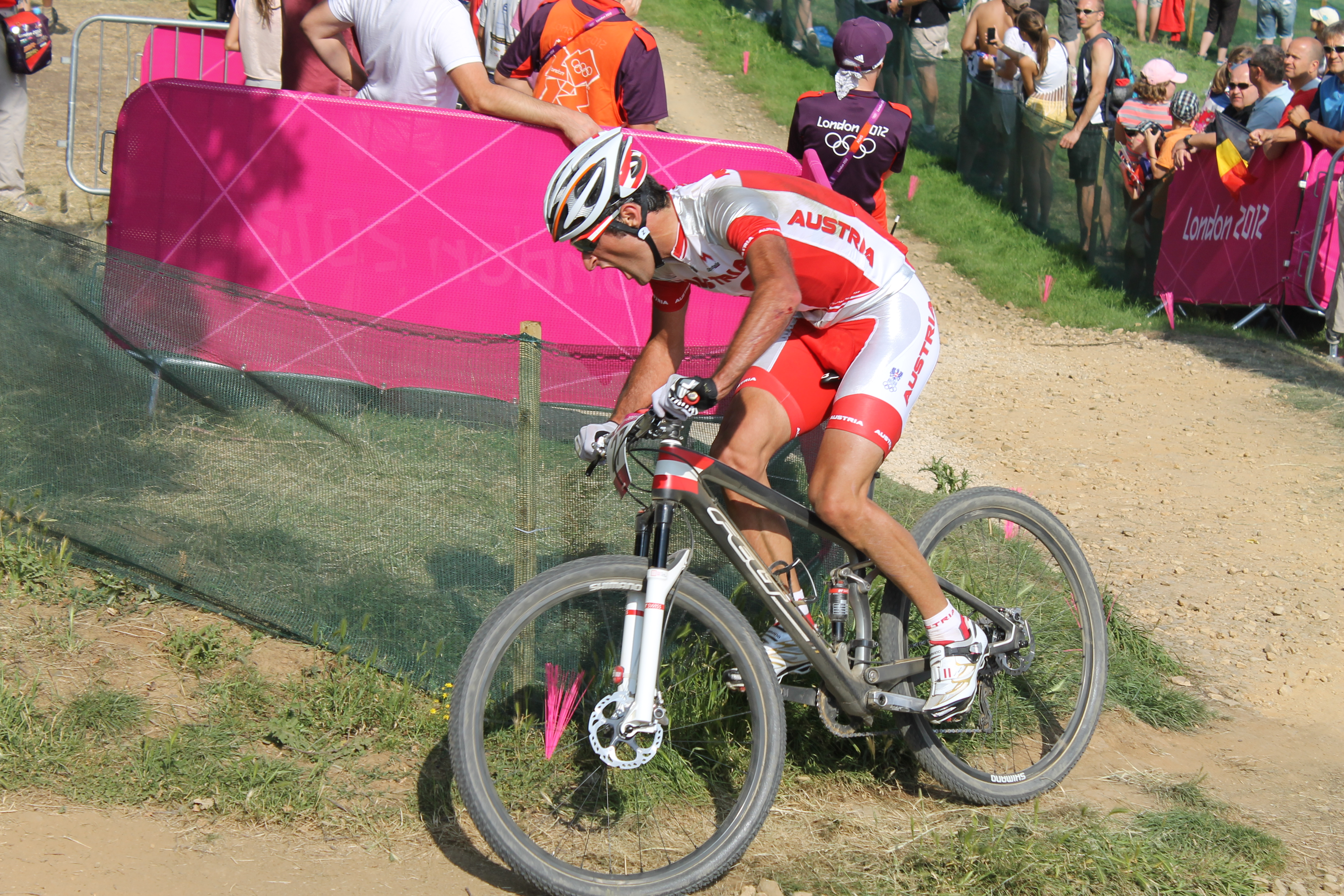 Cycling at the 2012 Summer Olympics – Men's cross-country Karl Markt (27) (AUT) IMG_4310